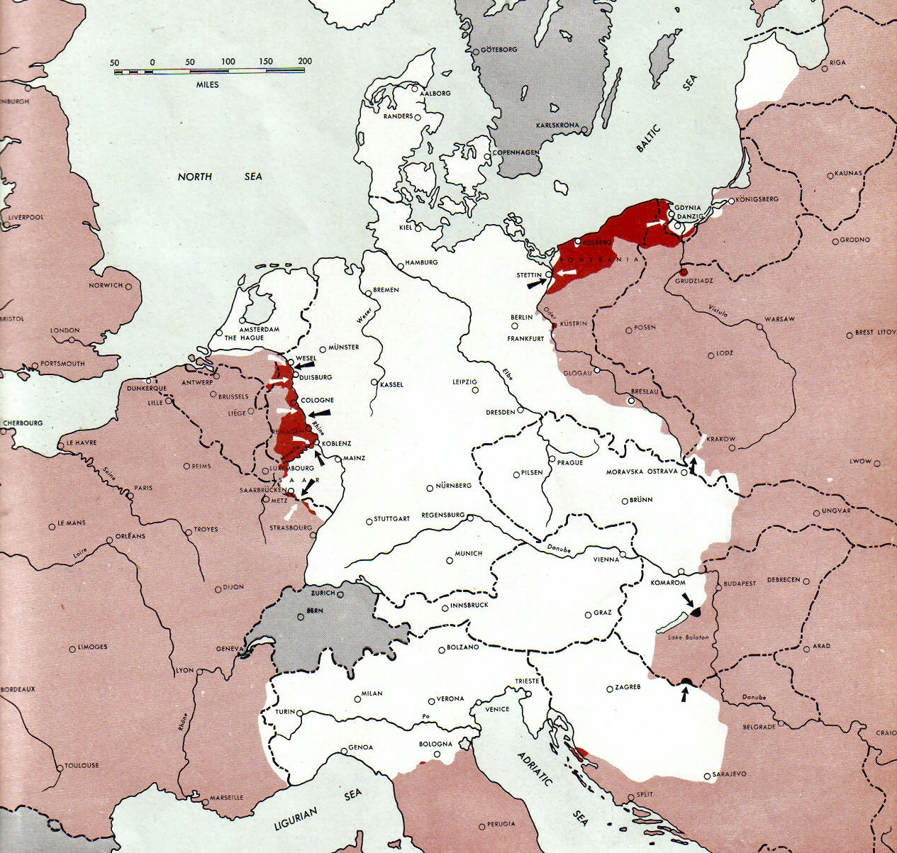 Map of the front against Germany: This map is taken from the source "Atlas of the World Battle Fronts in Semimonthly Phases to August 15th 1945: Supplement to The Biennial report of The Chief of Staff of the United States Army July 1, 1943 to June 30 1945 To the Secretary of War". (See Cover, Forward and Map details)